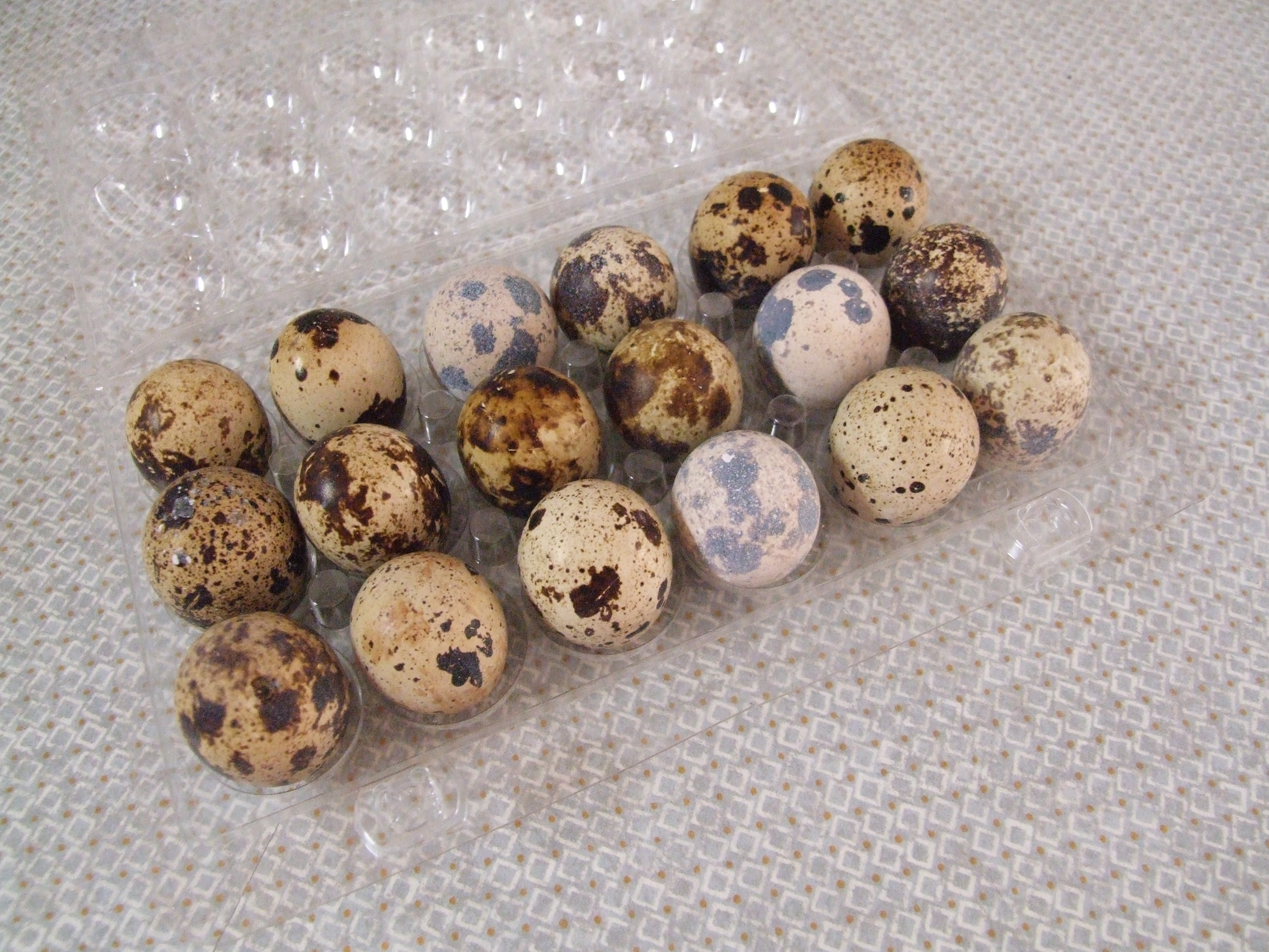 Wachteleier, ovus Coturnix sp., eggs of quail